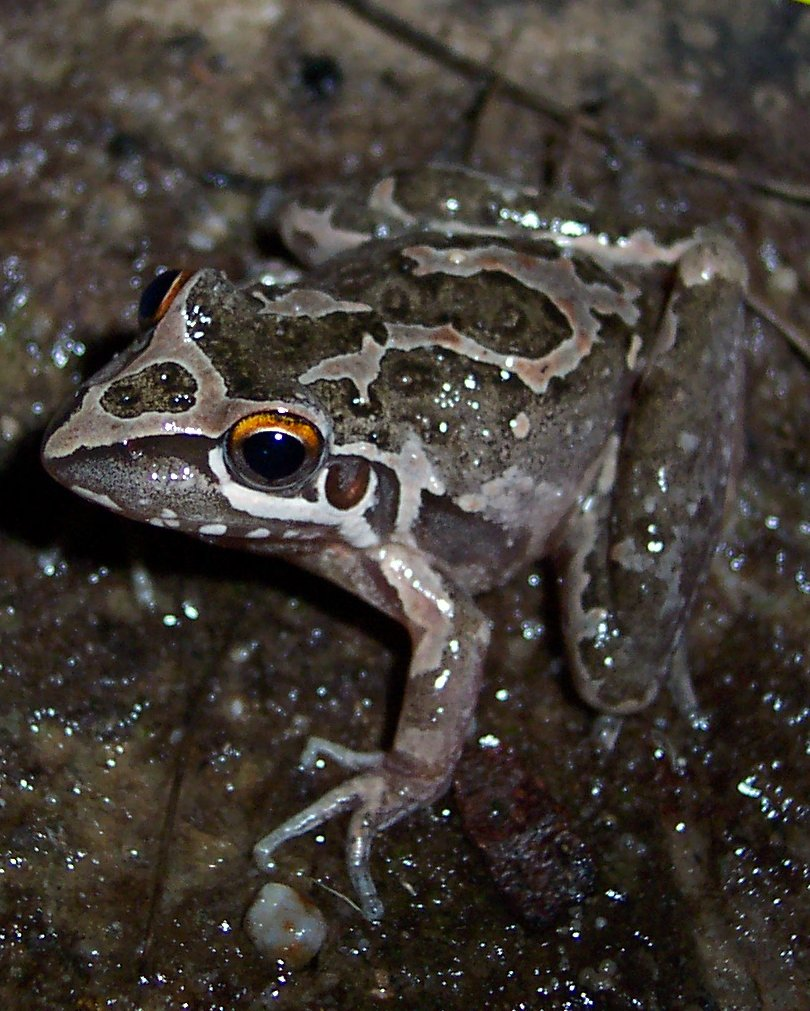 This is a Litoria freycineti from the Jervis Bay region of NSW. Category:Frog images